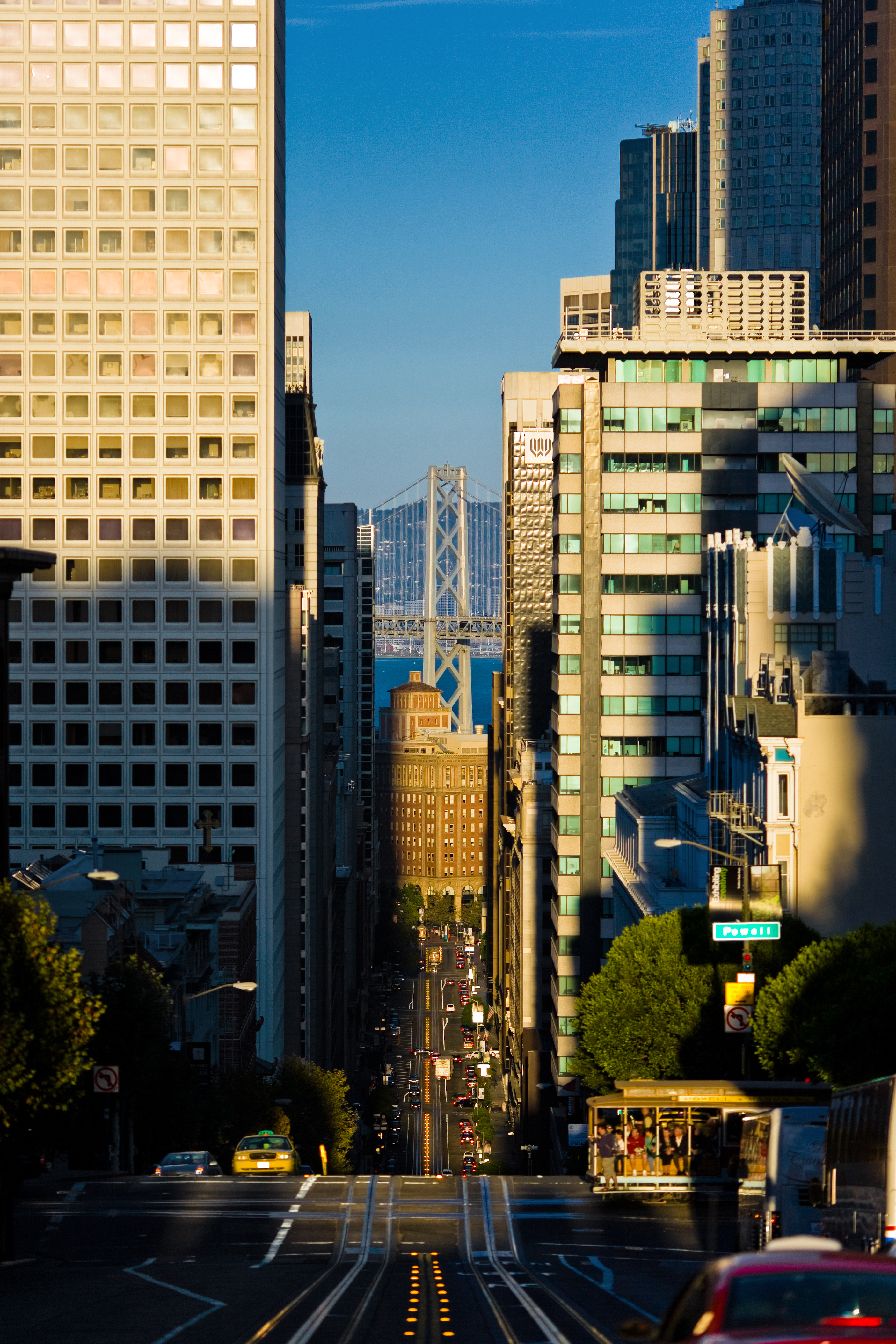 California Street as seen from Nob Hill